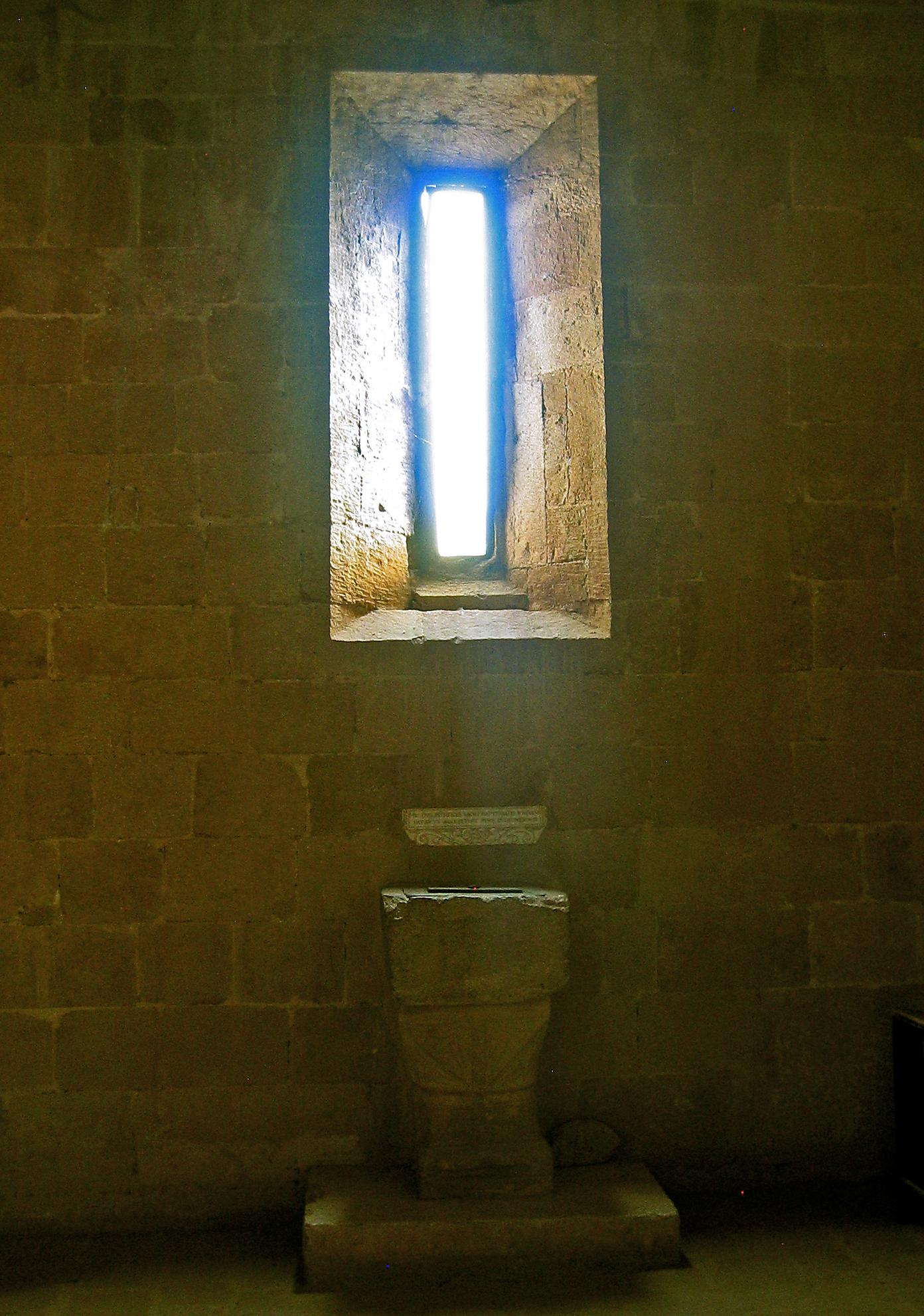 The origins of Pieve di Corsignano (Italy) can be traced to the VII century, while the actual version dates back to the 12th century. Inside is the baptismal font where Pio II and his nephew Pio III were baptized. The church must precisely to this Pope one of his biggest reasons of interest. In his baptismal font in fact, in 1405 was baptized Enea Silvio Piccolomini, the future Pope Pius II and, later, his nephew also rose in turn to solio pontifico as Pius III was baptized here. Inside, near the baptismal font an epigraph in Latin recalls the excellent baptisms: Hic duo Pontifices sacred baptismatis undas, Patruus accepit, et Pius inde Nepos.